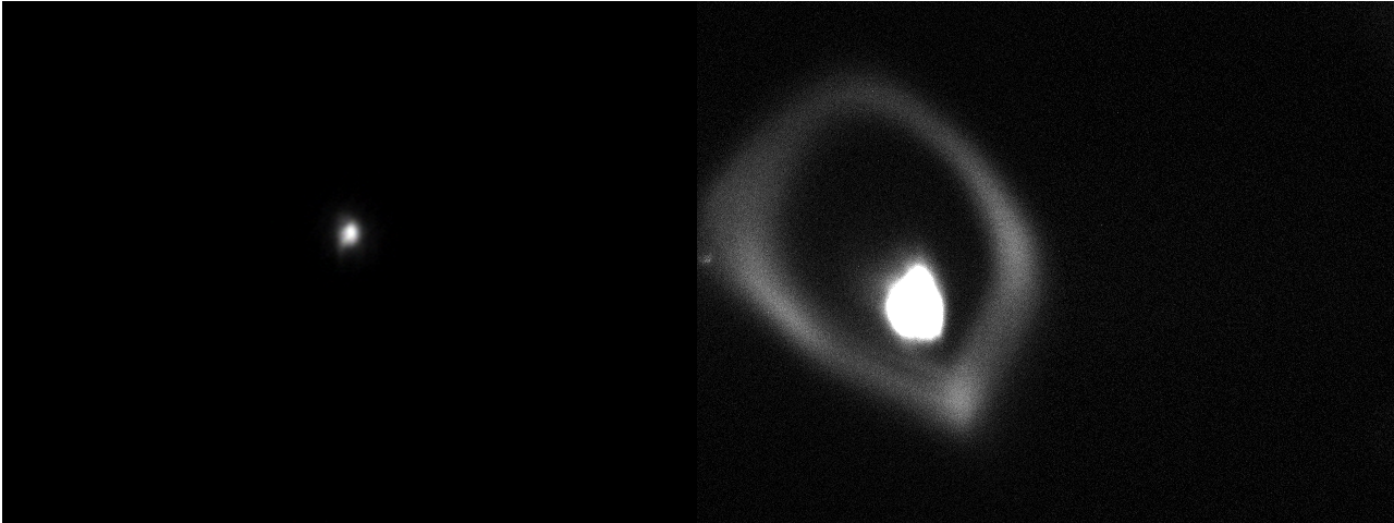 A near infra red image of a cloud trapped and cooled in a magneto optical trap. Both a normally loaded mot and a heavily loaded mot with racetrack modes are shown.